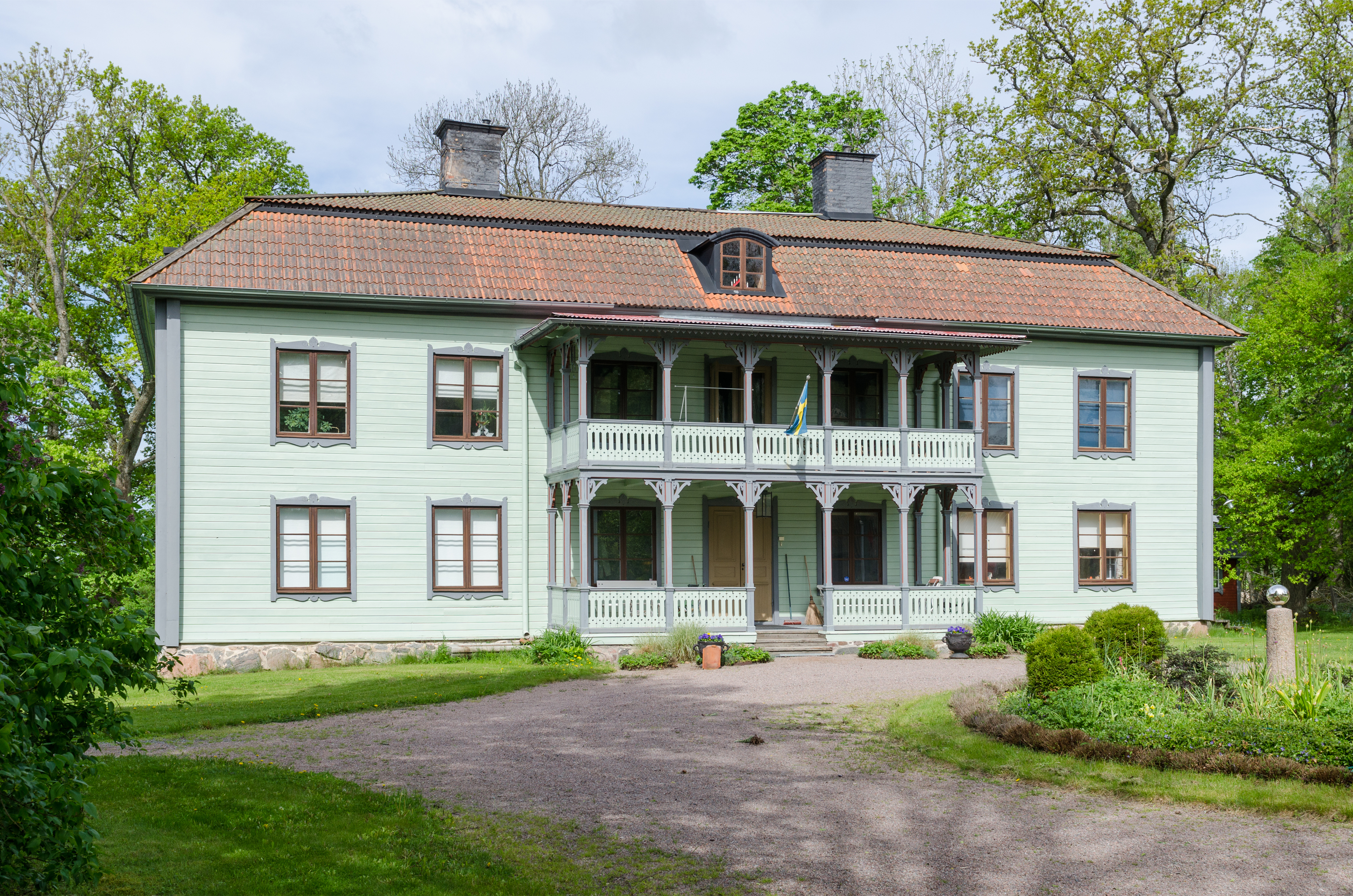 Altomta gård in Altomta, Uppsala Municipality (Sweden) Built in the 1760s (upper floor was built in the 1800s). Altomta was built for Carl Gustaf Ekeberg